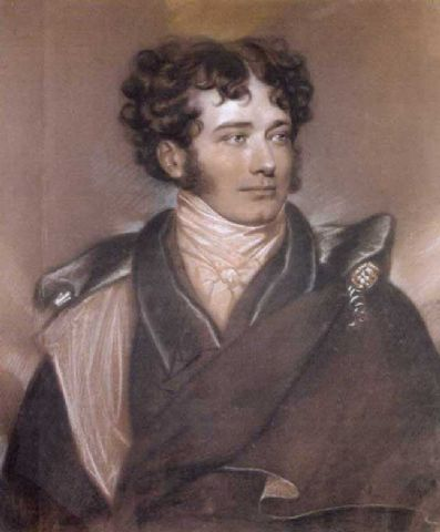 Portrait of the Hon. Charles Ewan Law, Esq, QC, DL, MP and Recorder of London